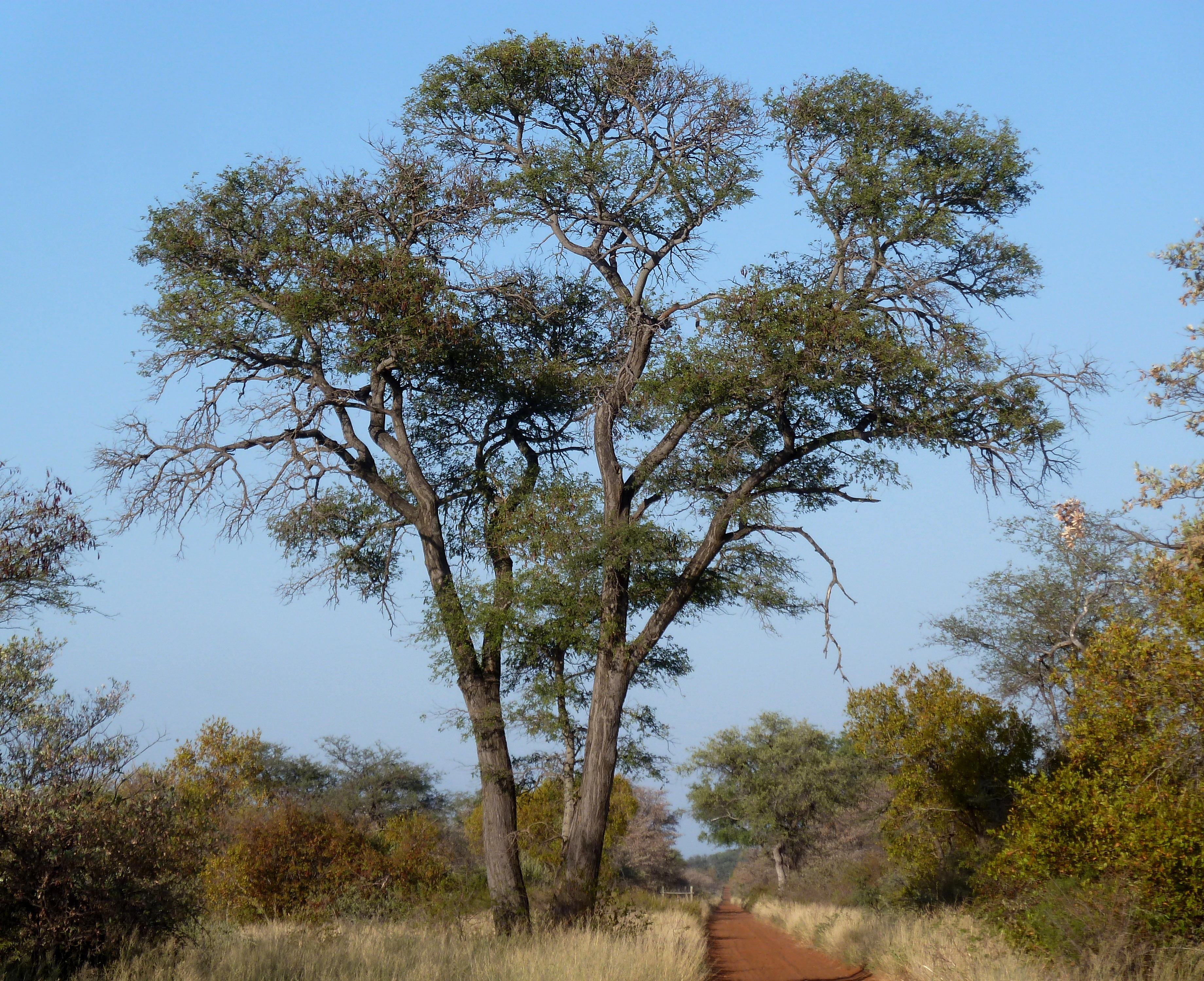 Habit of a Knobthorn tree at Zinyathi lodge, Steenbokpan, Limpopo